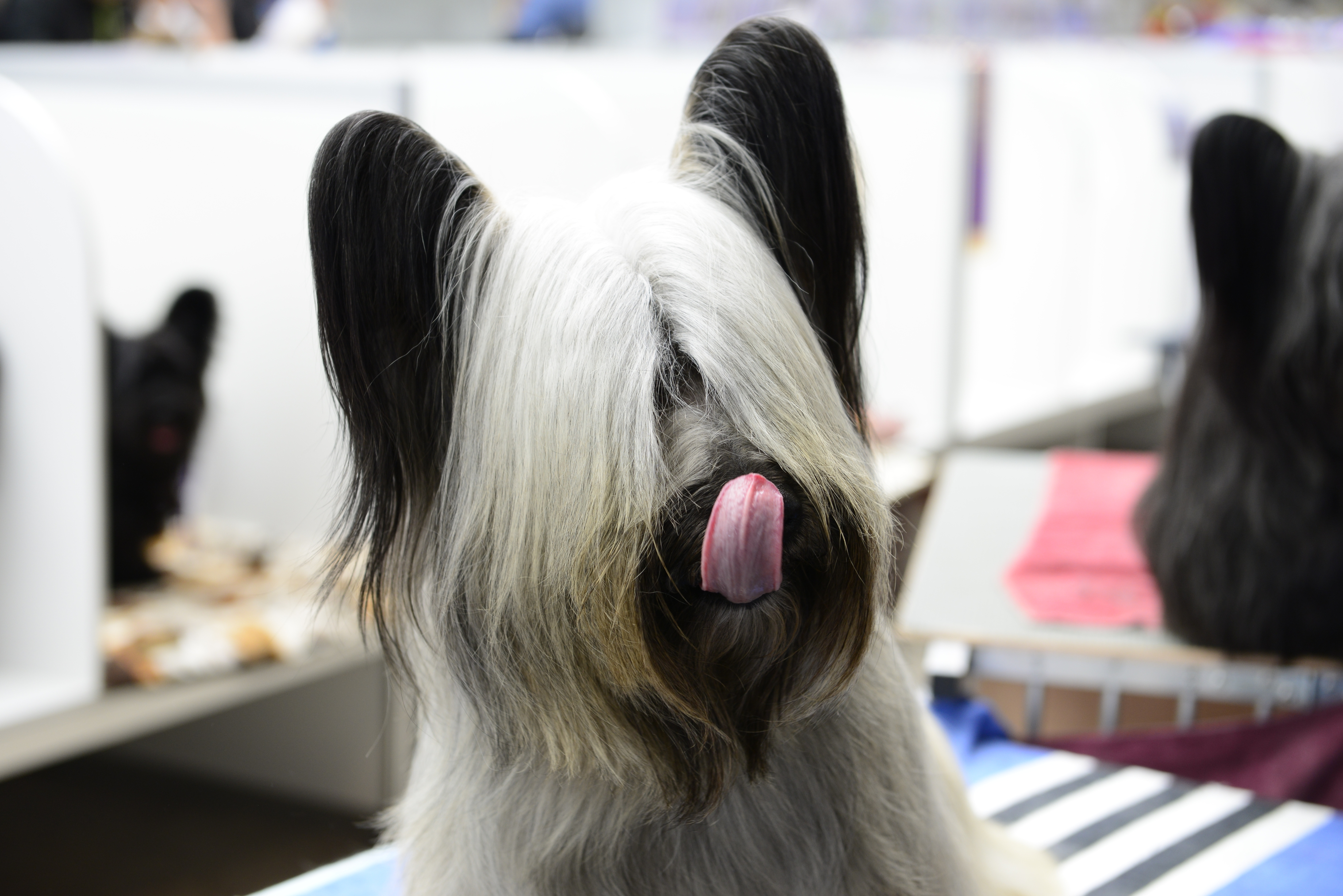 This type of dog is a Skye Terrier which just had a bite to eat.